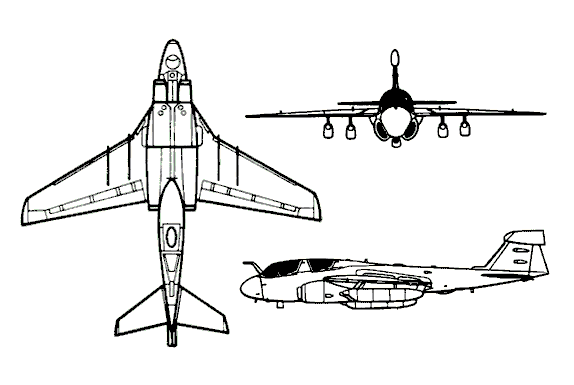 3 view drawing of an EA-6B used for recognition